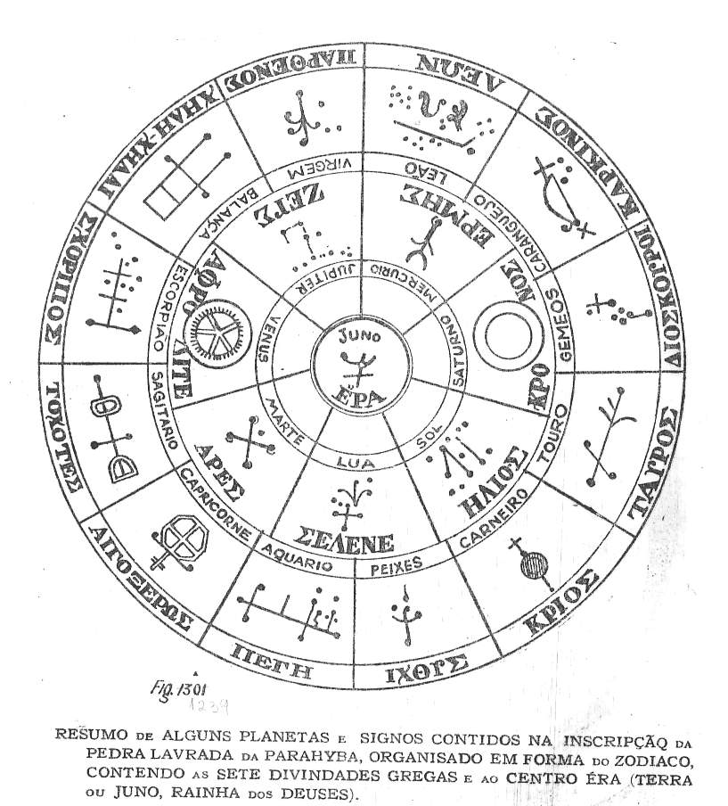 Interpretation of the marks on Pedra Lavrada (File:Retumba, Francisco Soares, Pedra Lavrada em Jardim do Seridó.png) by Bernardo de Azevedo da Silva Ramos (1858 - 1931).